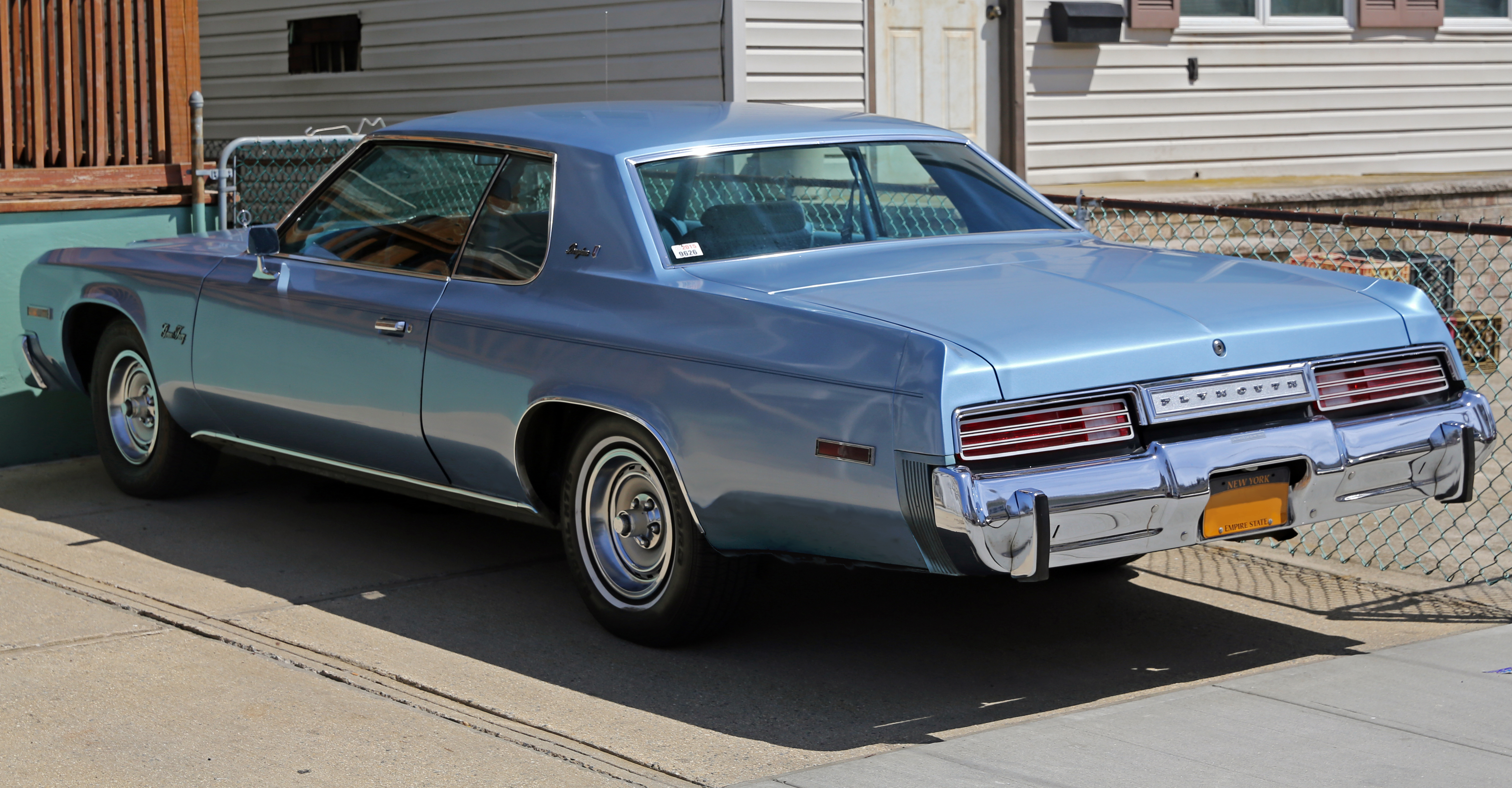 A 1977 Plymouth Gran Fury Brougham 2-door hardtop coupe, fitted with the 2-barrel 360 V8. Assembled in Belvedere, IL.